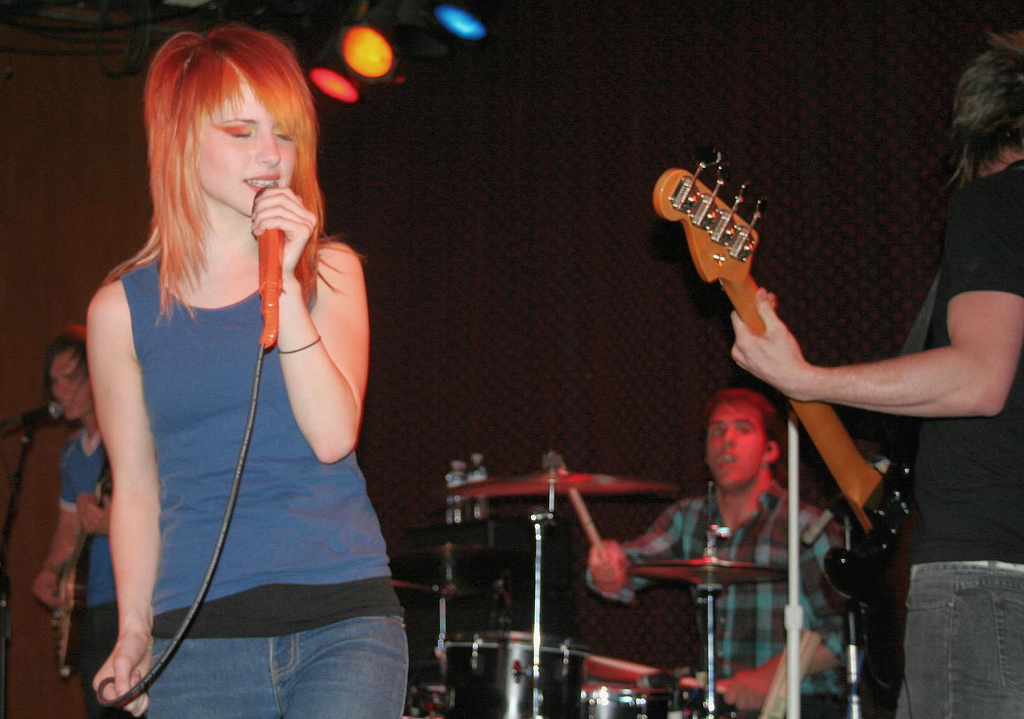 Paramore at The Social, Orlando, Florida on April, 23 2007.